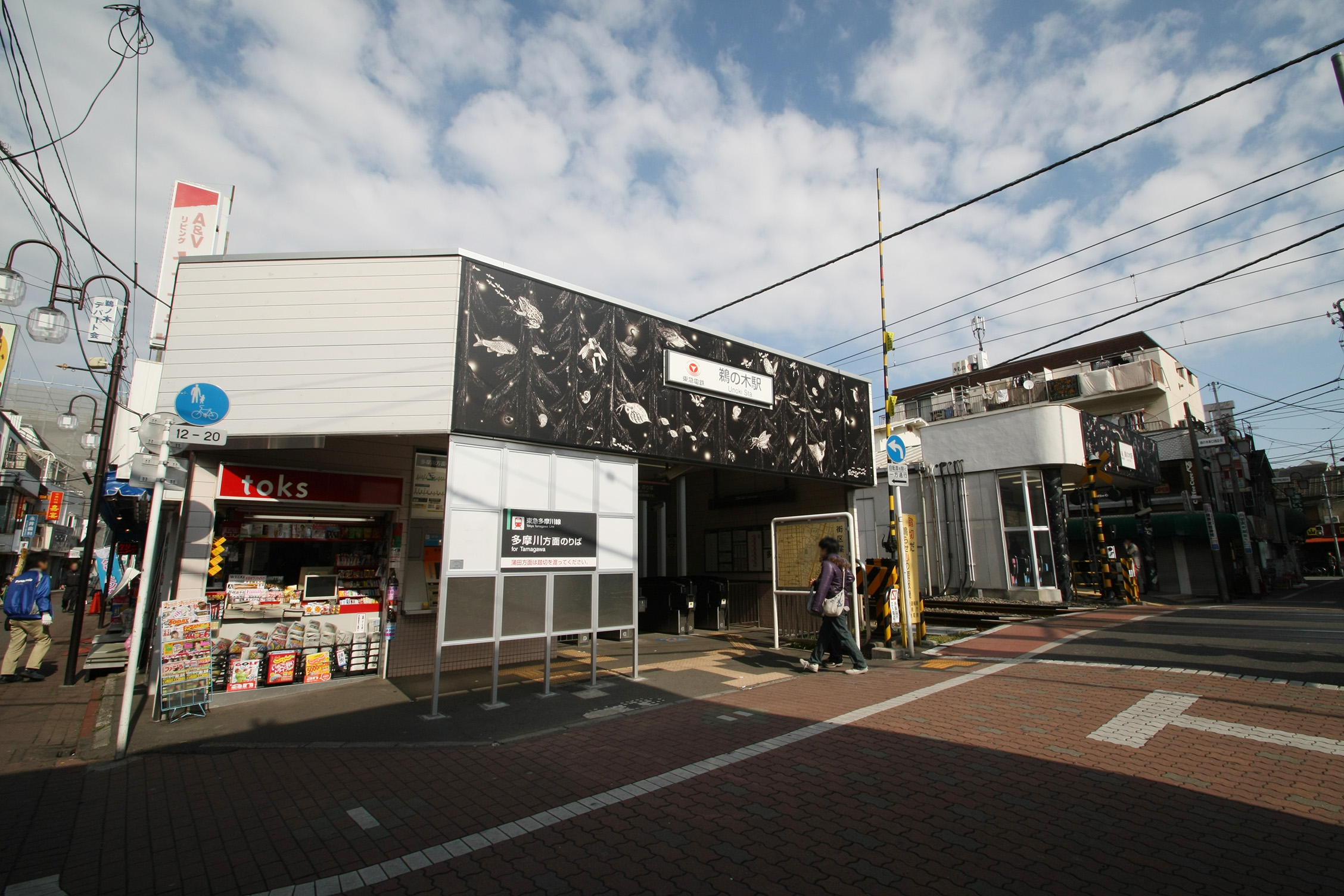 Unoki Station